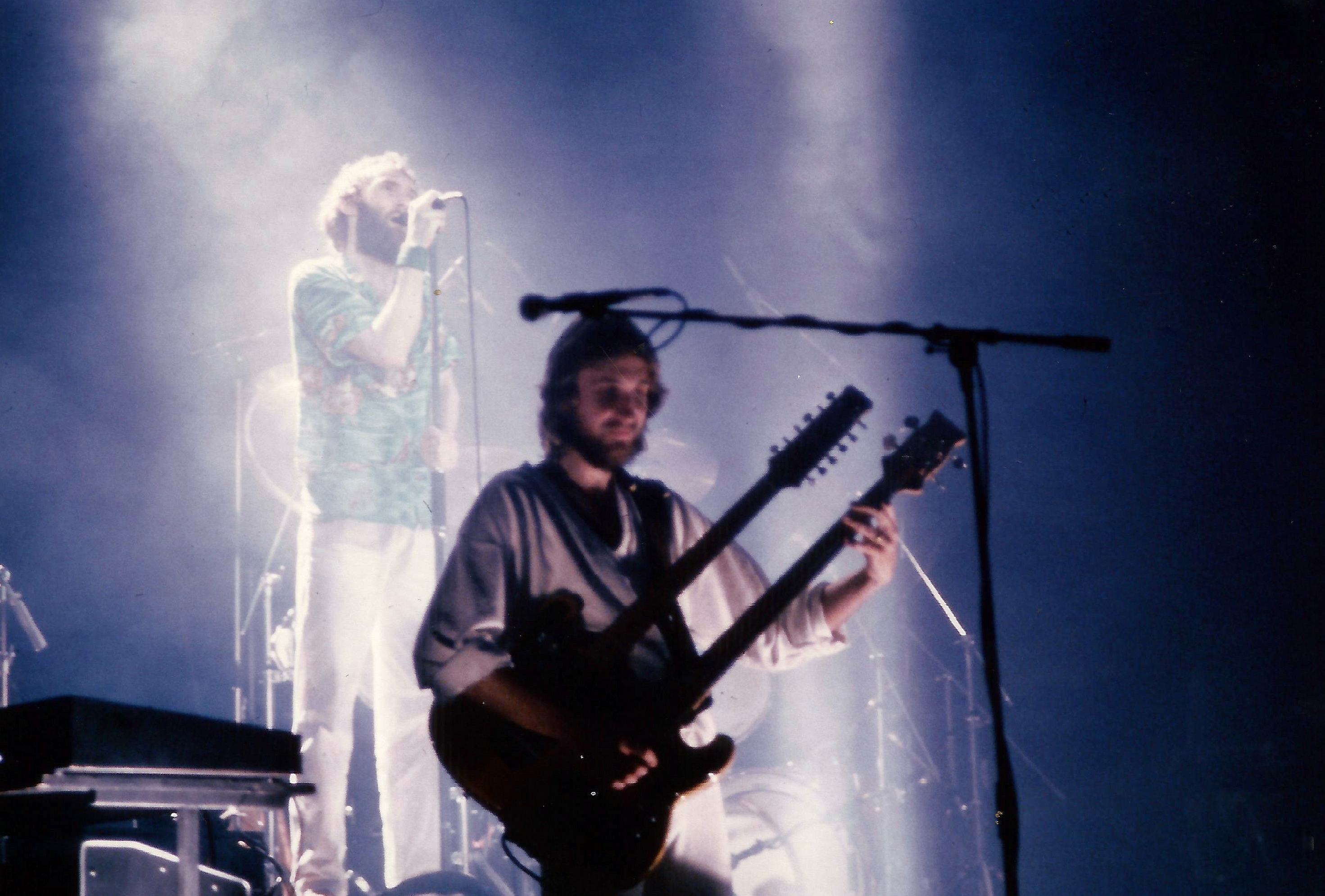 Mike Rutherford (with Phil Collins) of Genesis live in concert @ Empire Theatre, Liverpool